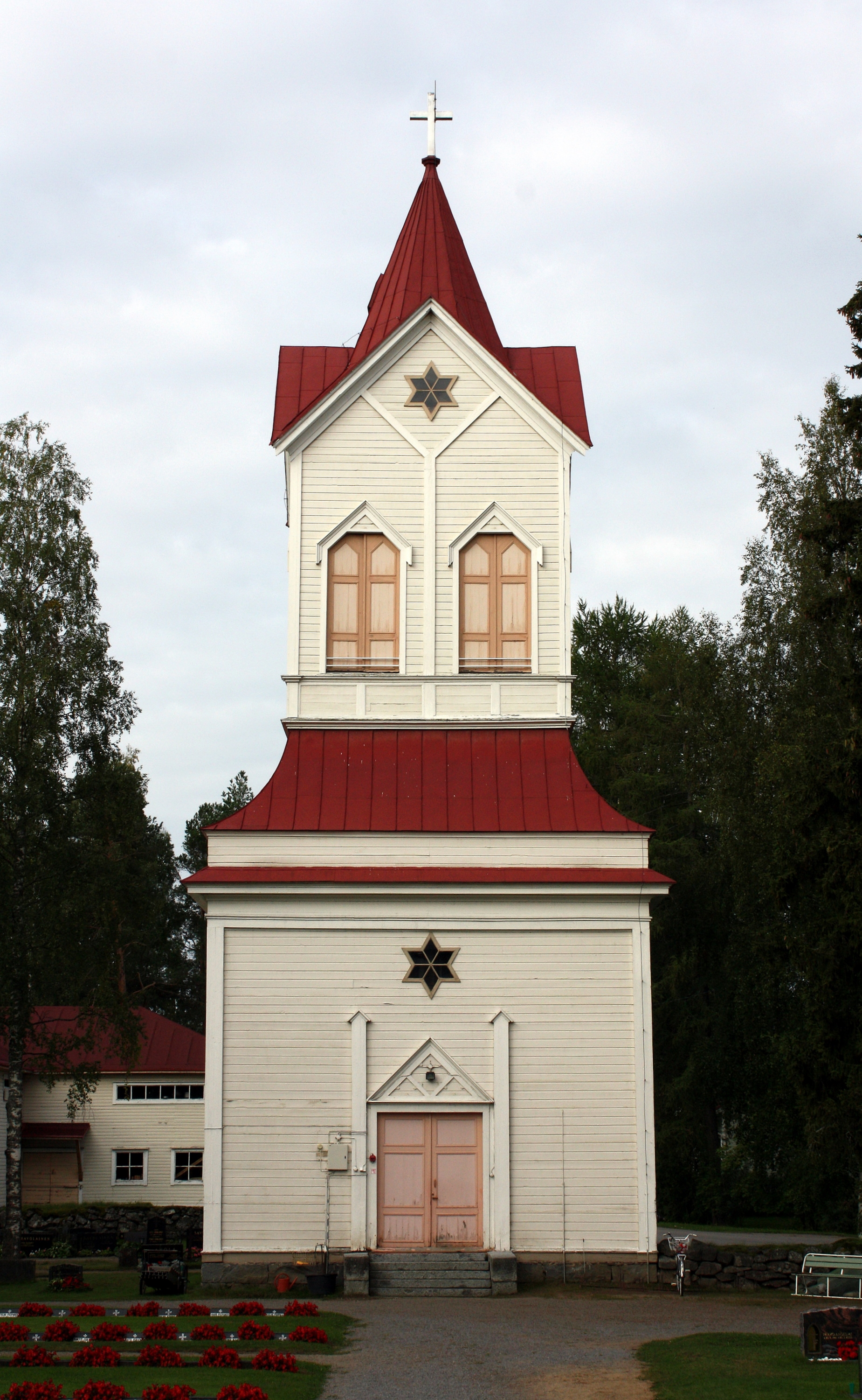 The belfry of Reisjärvi Church was built in 1820.